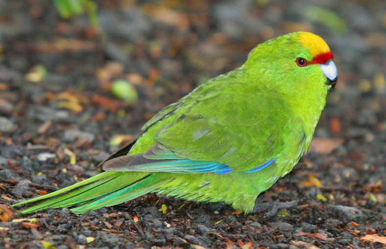 Yellow-crowned parakeet (Cyanomorphus auriceps) on Ulva Island